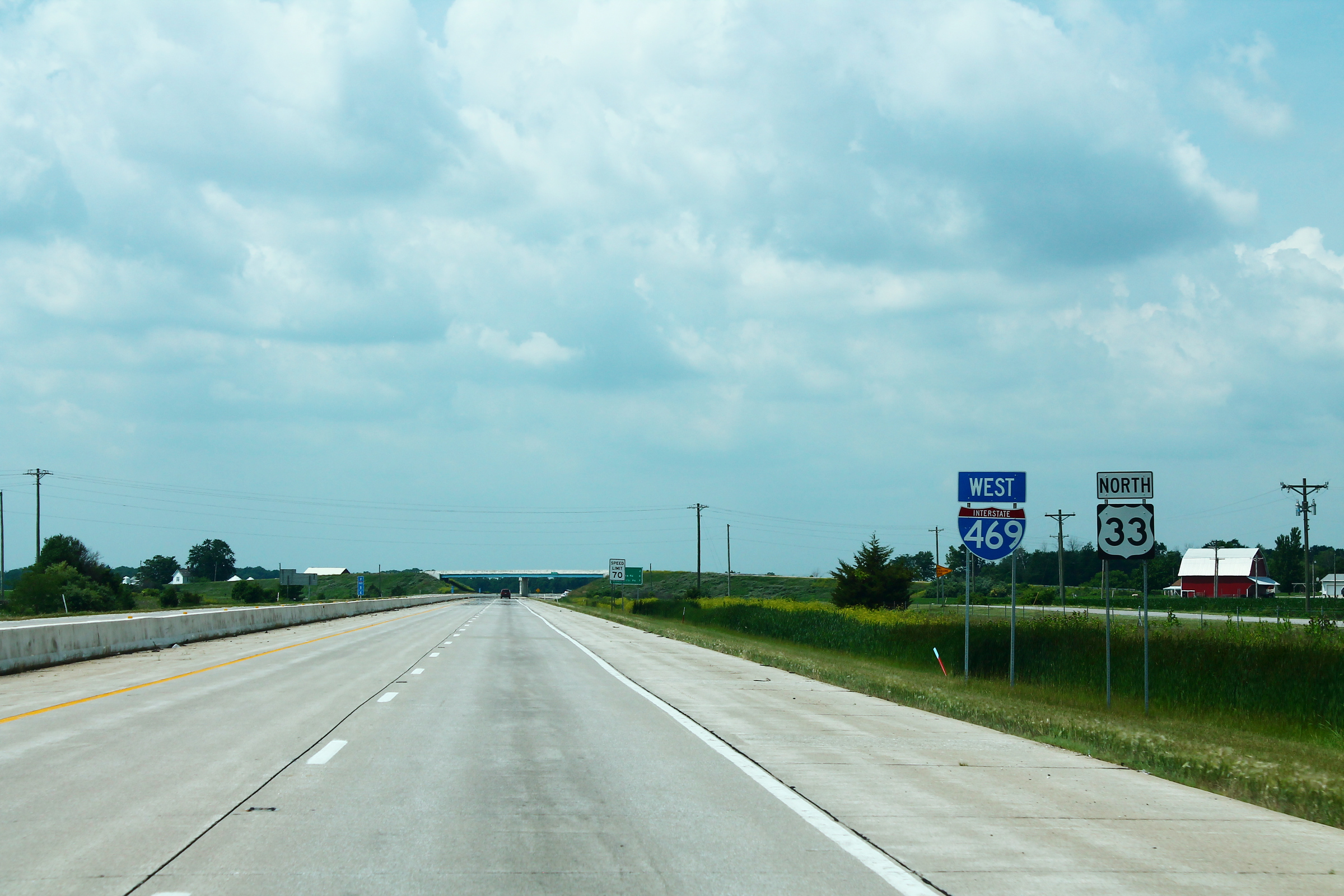 I-469 West US33 North Signs - MM8